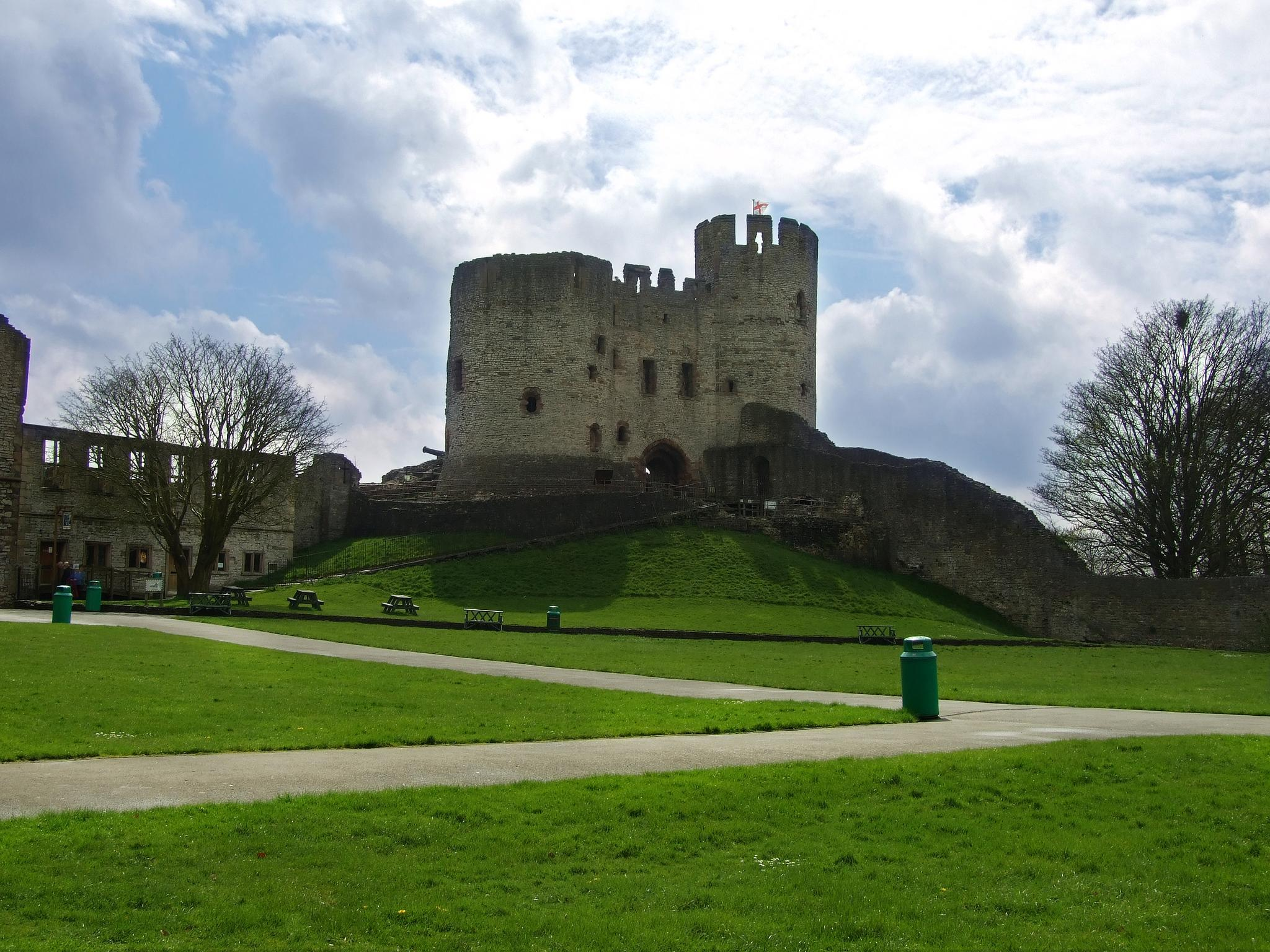 Dudley Castle, West Midlands, England.